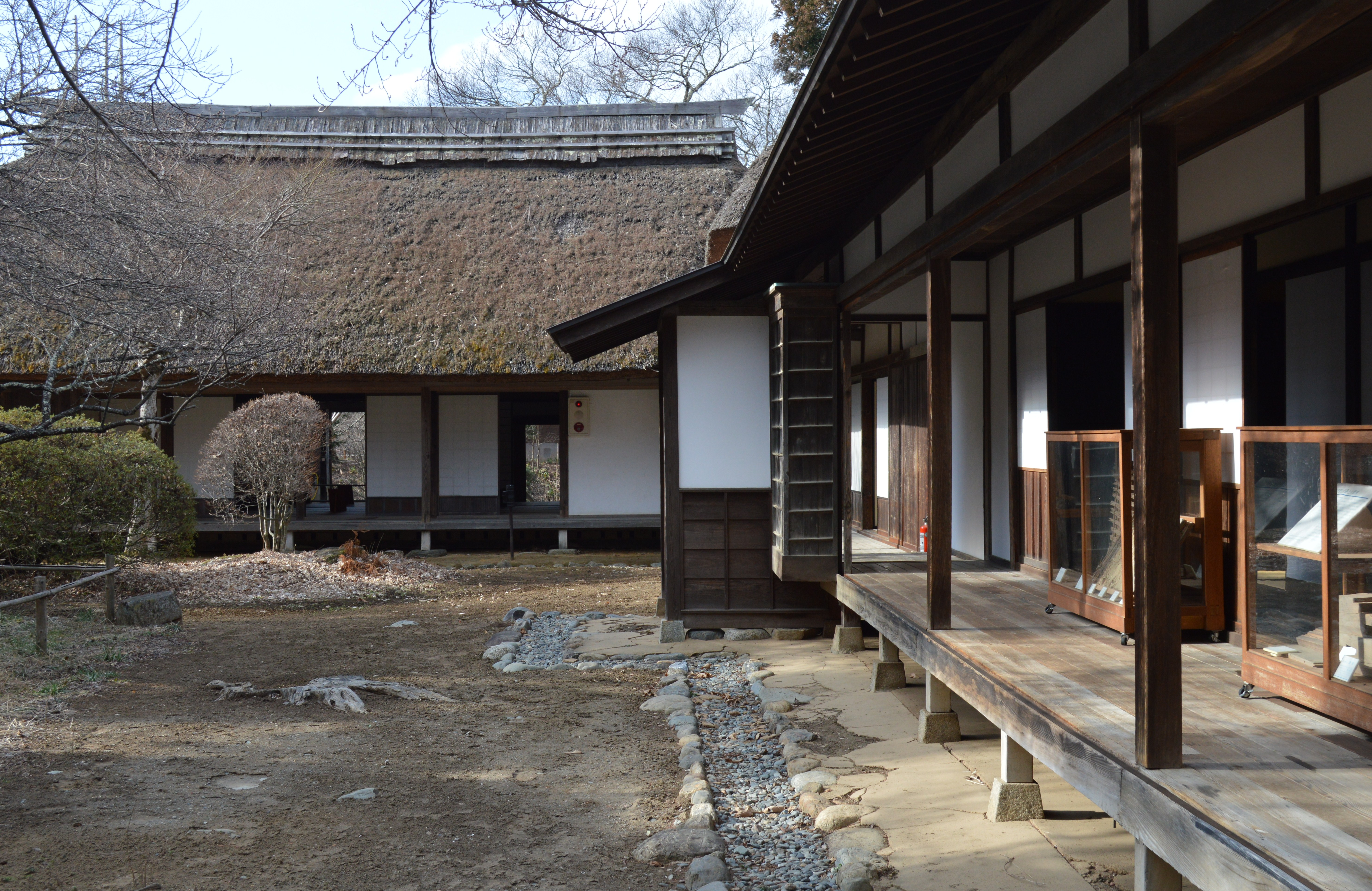 Shintoku-kan was a Han chool (educational institute in the Edo period) in Shinano Province, Japan. Shintoku-kan opened in 1860, closed in 1873. Takato machi, Ina city, Nagano prefecture, Japan.